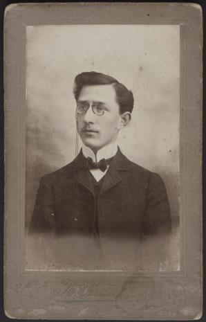 Portrait of man by Karol Szałwiński (1869-1906) from the end of XIX century, owned by Museum of Art in Łódź.